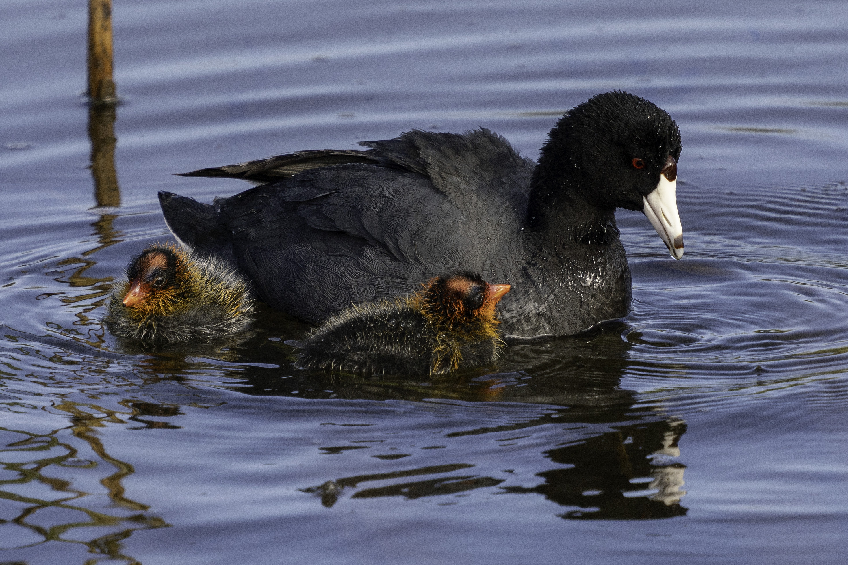 American coot with chicks, Pescadero Marsh Natural Preserve, California